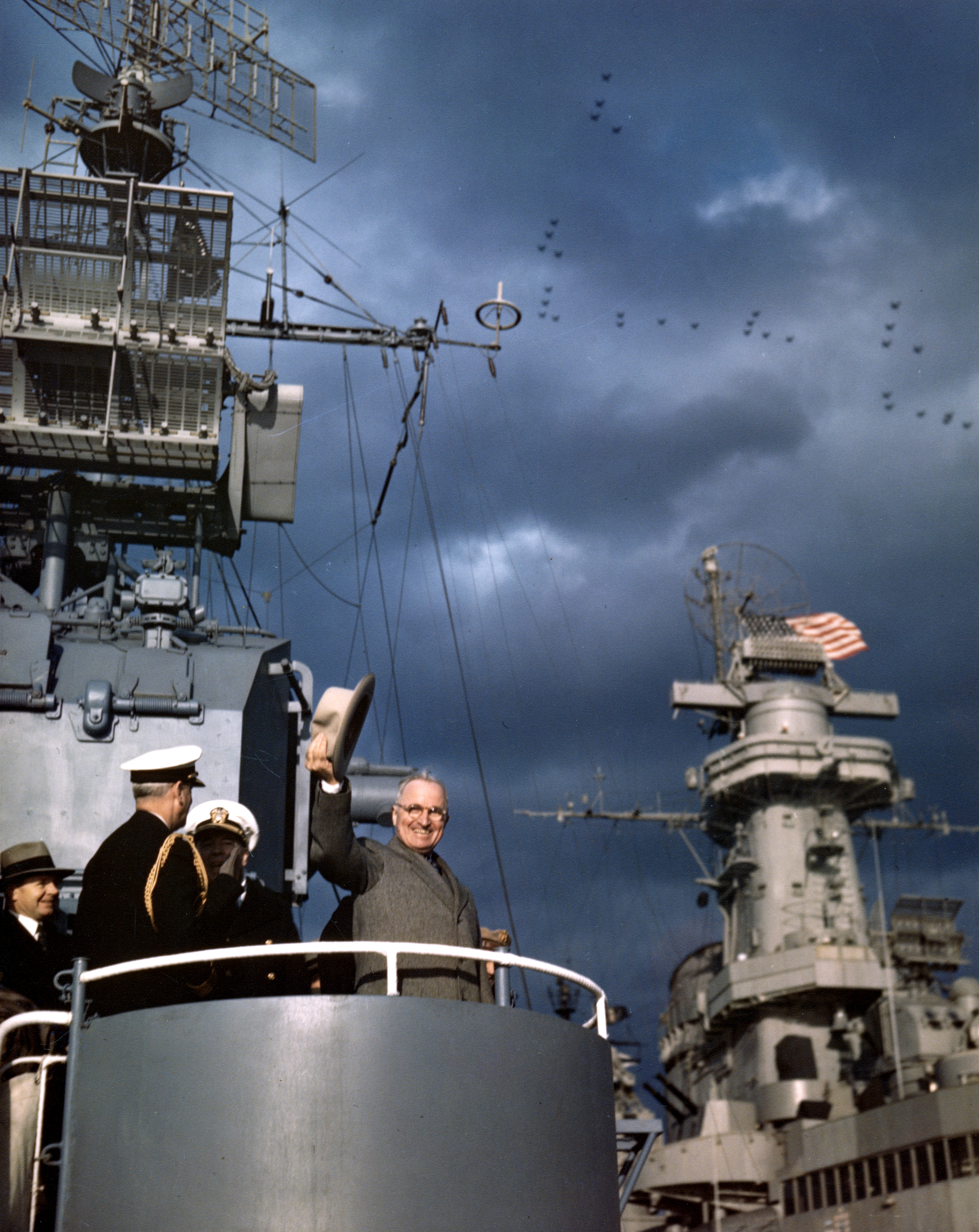 The U.S. President Harry S. Truman with his party on board the destroyer USS Renshaw (DD-499) during the Navy Day Fleet Review in New York Harbor, 27 October 1945. The battleship USS Missouri (BB-63) is in the right background, and U.S. Navy planes are flying in formation overhead.